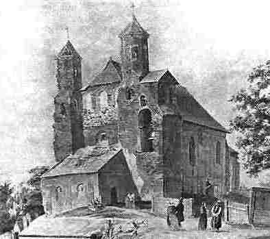 Navahradak_Barys and Hleb Church